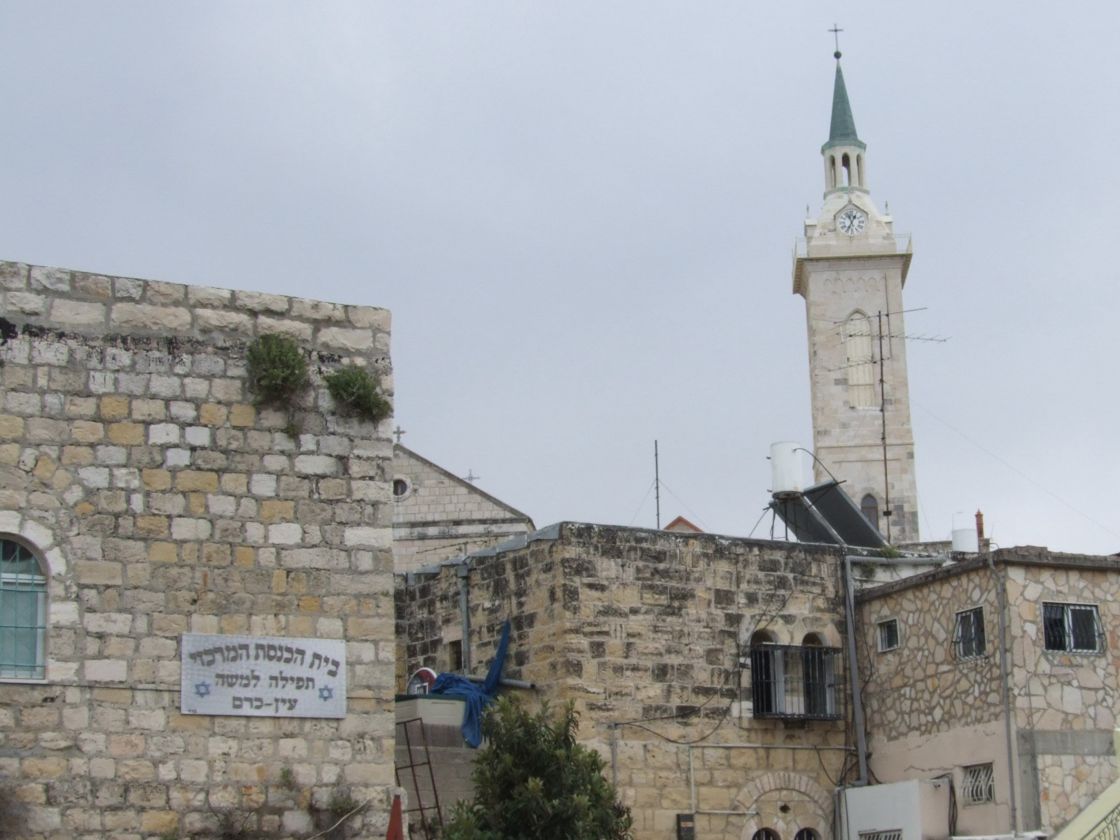 Ein Kerem, Jerusalem, Israel, the synagogue and the bell tower of Saint John in th Mountains Church.